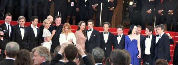 Cast and crew of Inglourious Basterds at the Cannes film festival